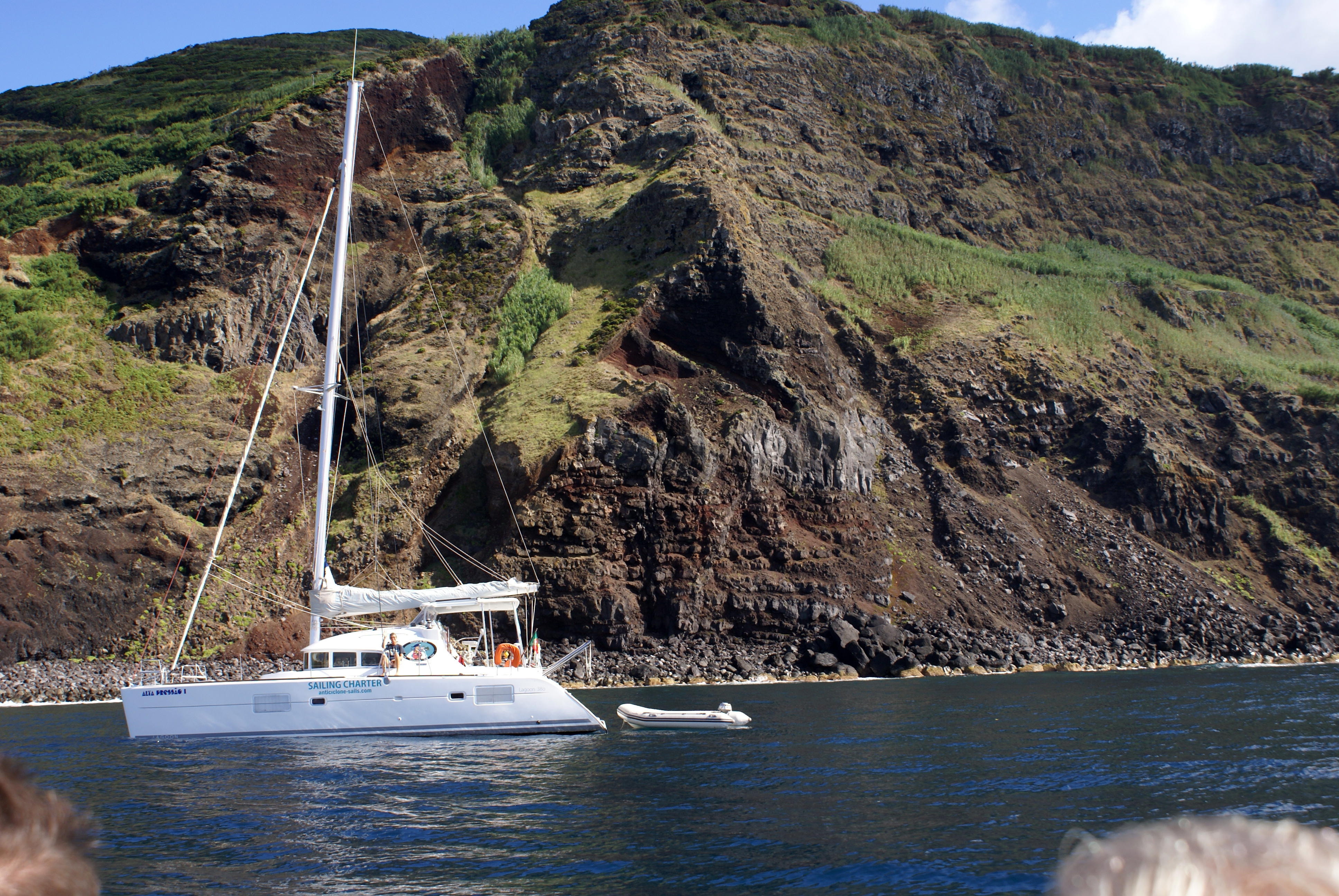 The arrival to the port of Corvo (Porto da Casa), civil parish of Vila do Corvo, municipality of Vila do Corvo (Azores), Portugal